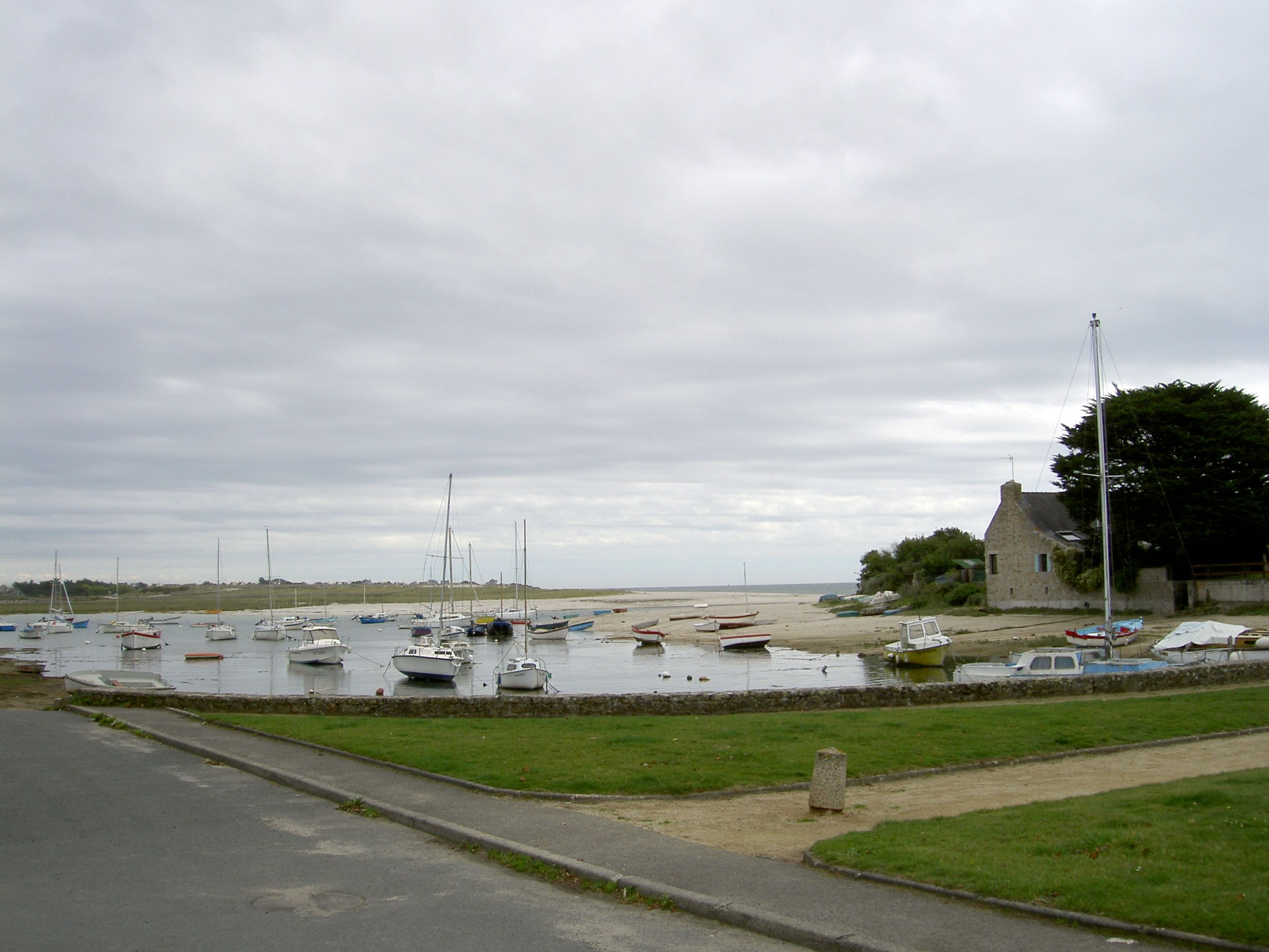 "Ster Nibilic", old harbor in Plobannalec-Lesconil, France